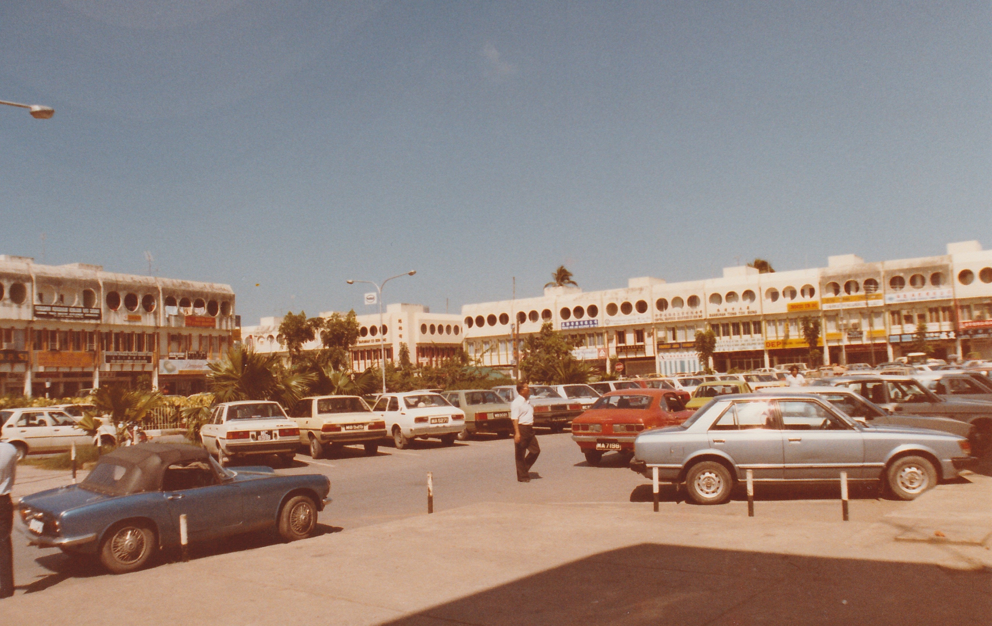 Miri town, Sarawak, Malaysia, in 1983.